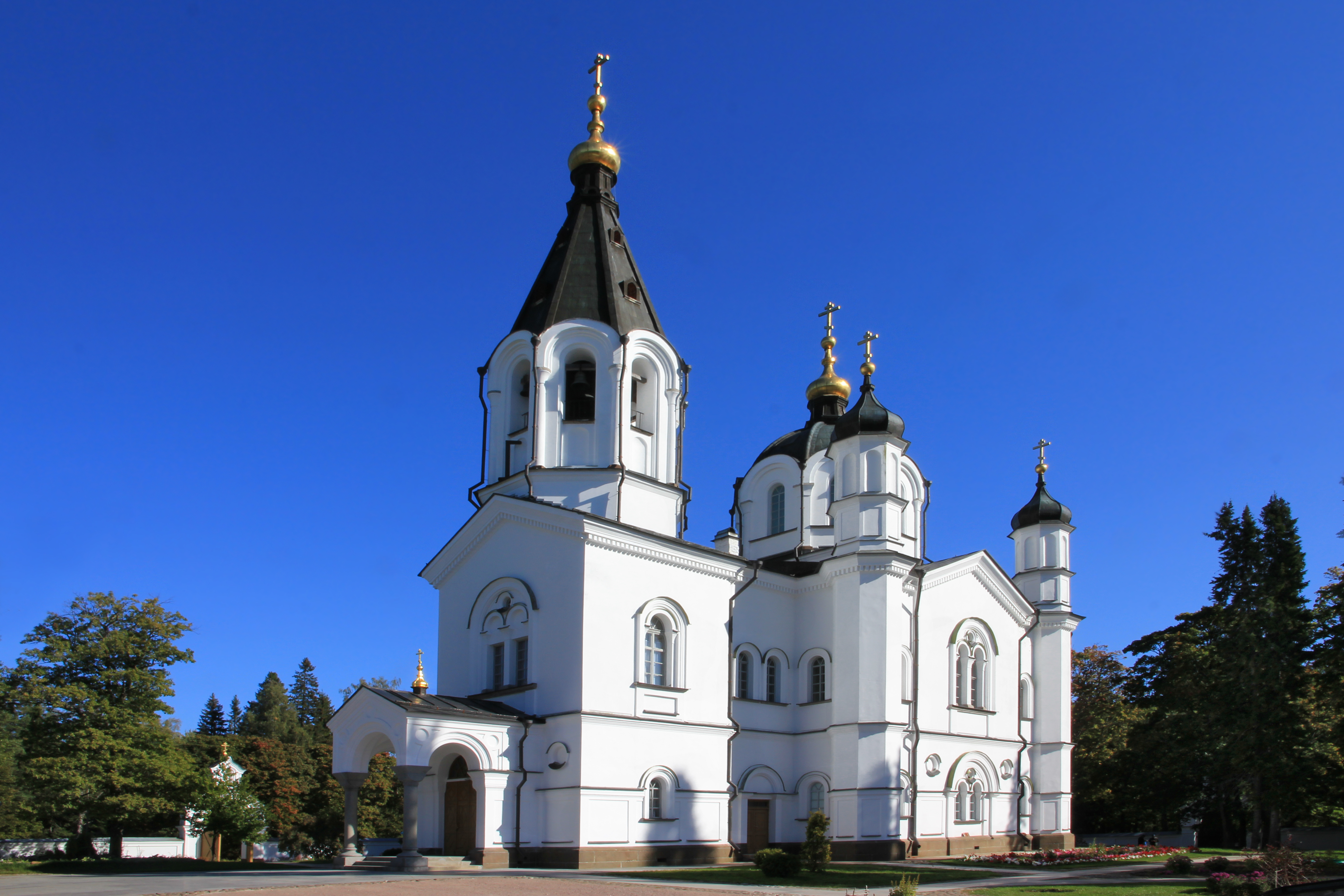 The Skete of All Saints on the Valamo. Karelia, Russia